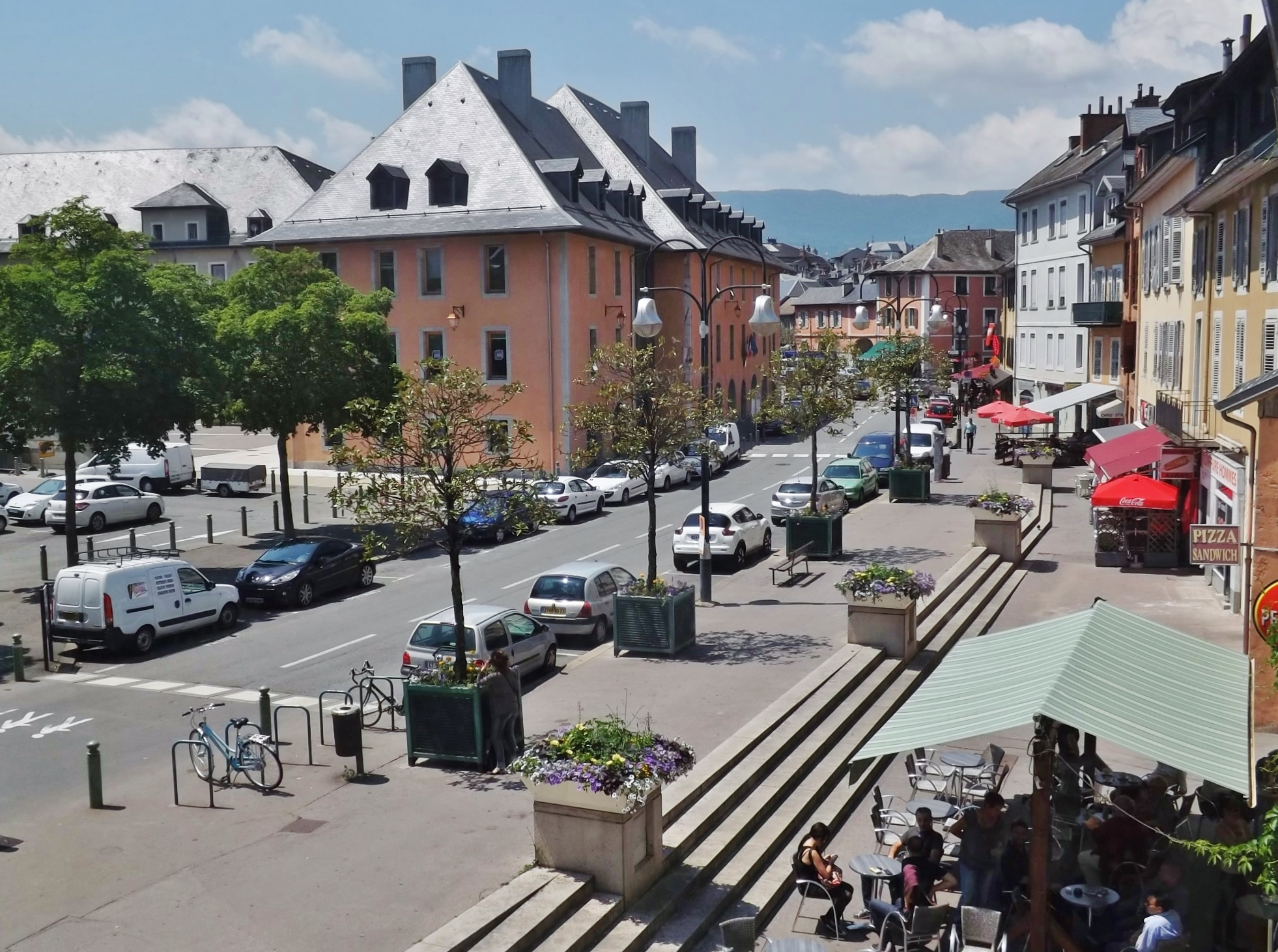 Sight on the rue de la République street and its teraces, in Chambéry, Savoie, France.